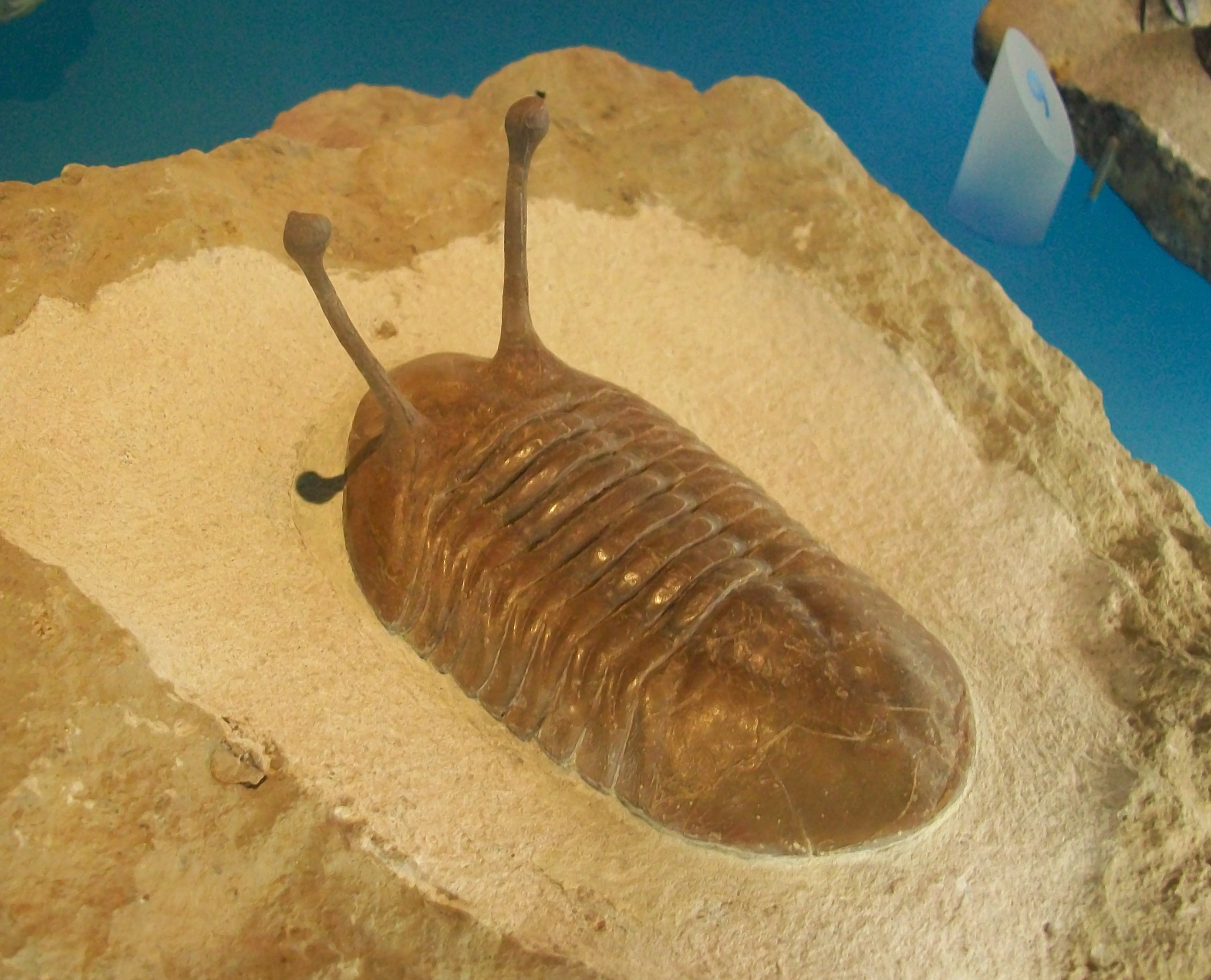 Fossil of Asaphus kowalewskii in the Field Museum of Natural History.